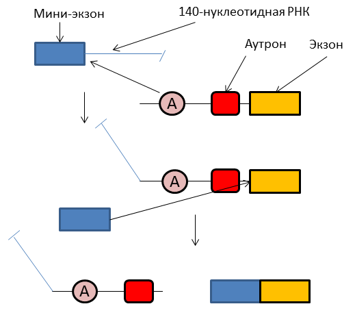 Scheme of trans-splicing in Trypanosoma brucei